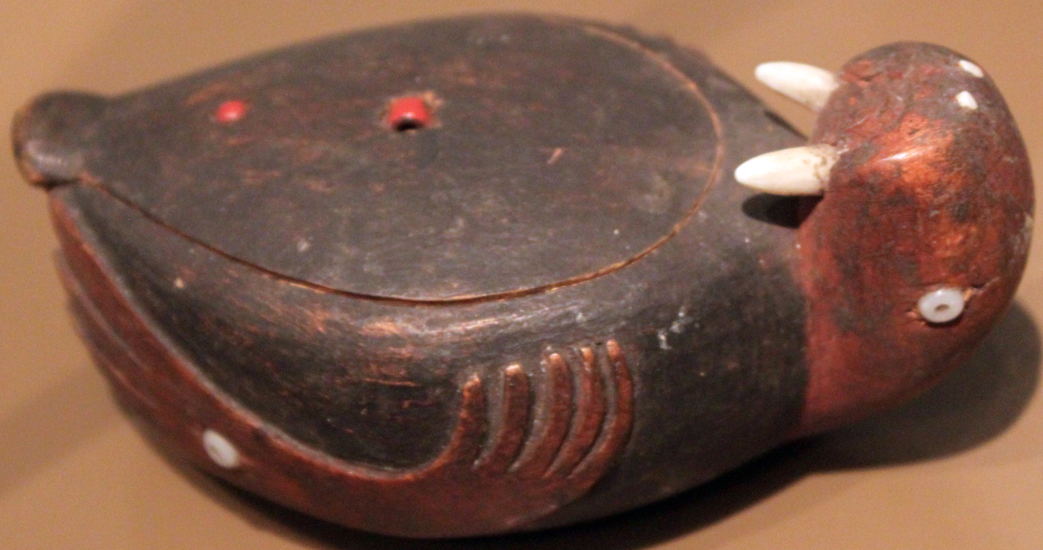 Walrus-shaped snuffbox. Yupik-Eskimo, 1883